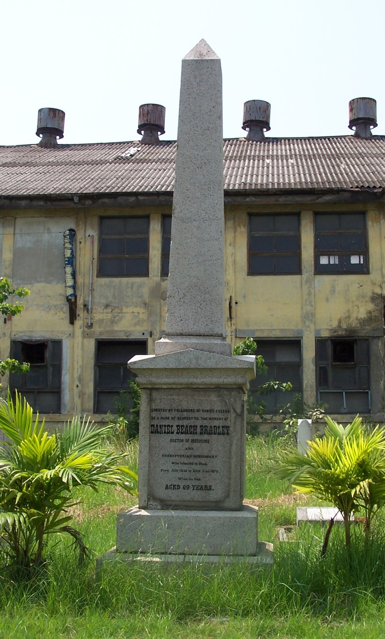 Grave of Dan Beach Bradley, Bangkok